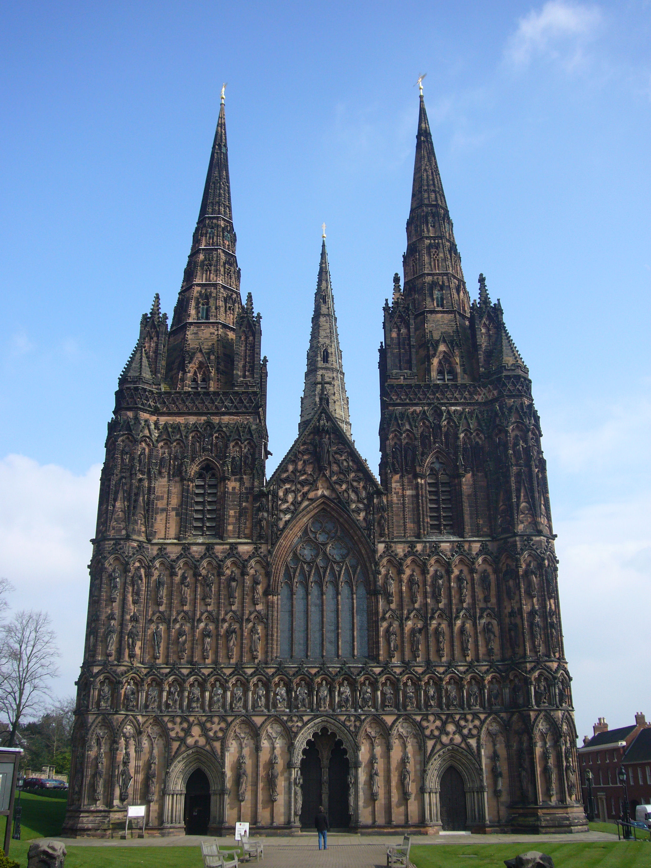 Lichfield Cathedral in Staffordshire, England, Britain.